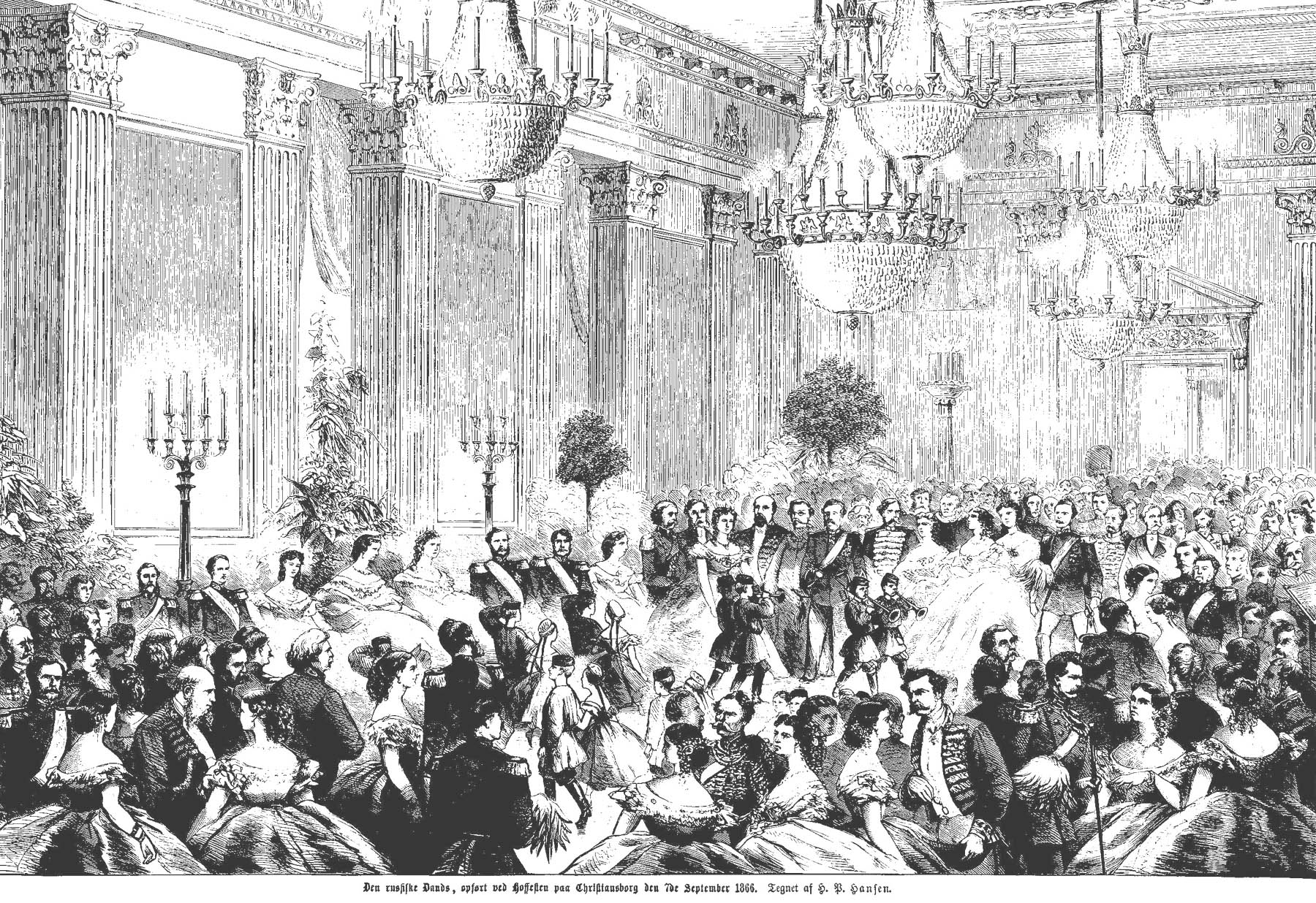 Celebrations at Christiansborg - a Tussian Dance" -on 7 Septmber 1866 in connection with Princess Dagmar's engagement with Grand Duke Alexander.